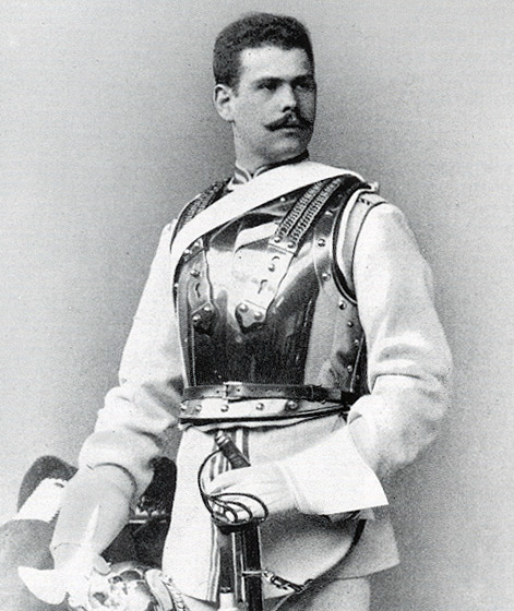 Future German foreign minister Walther Rathenau (1867-1922) during military service